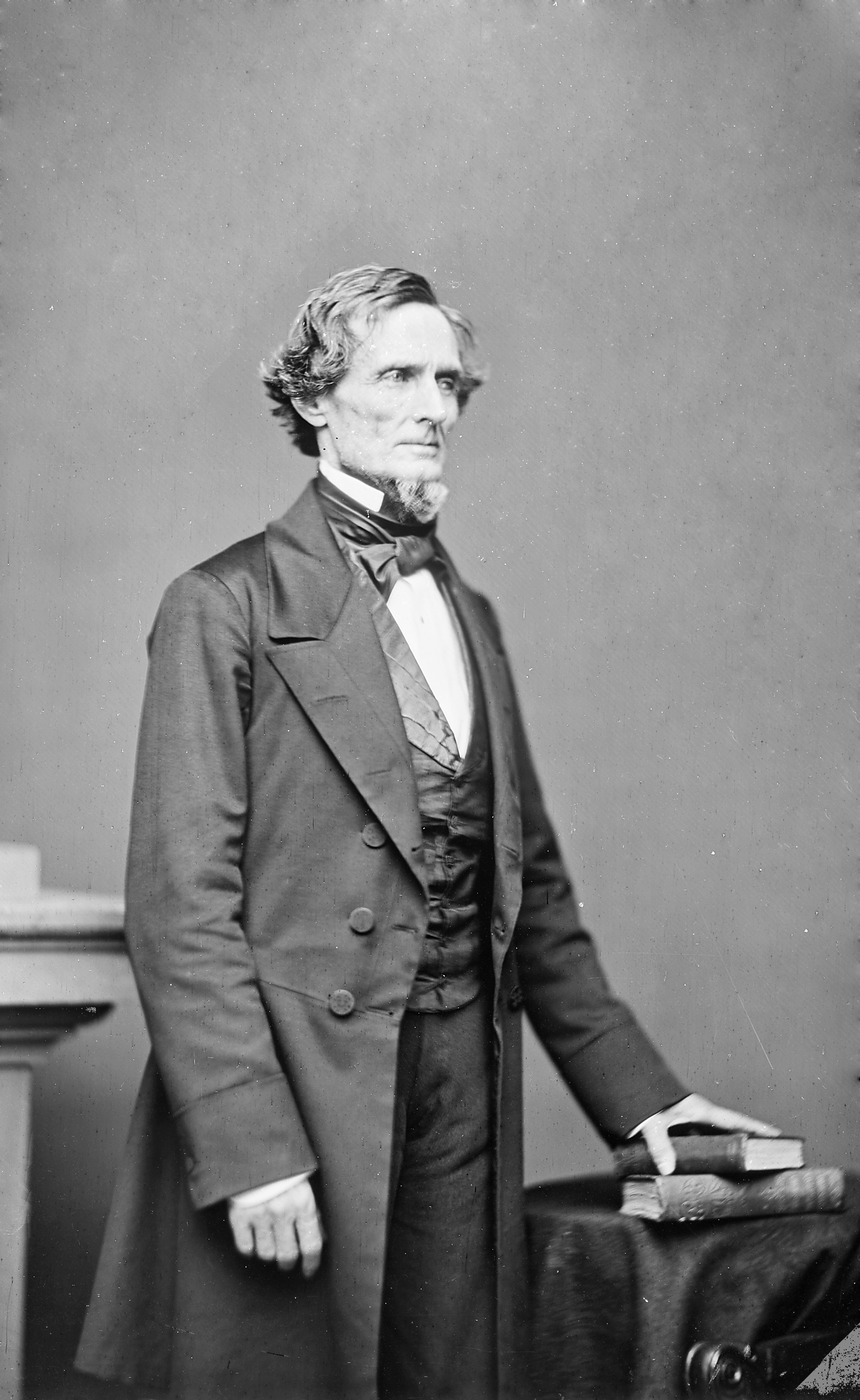 General notes: Use War and Conflict Number 131 when ordering a reproduction or requesting information about this image.